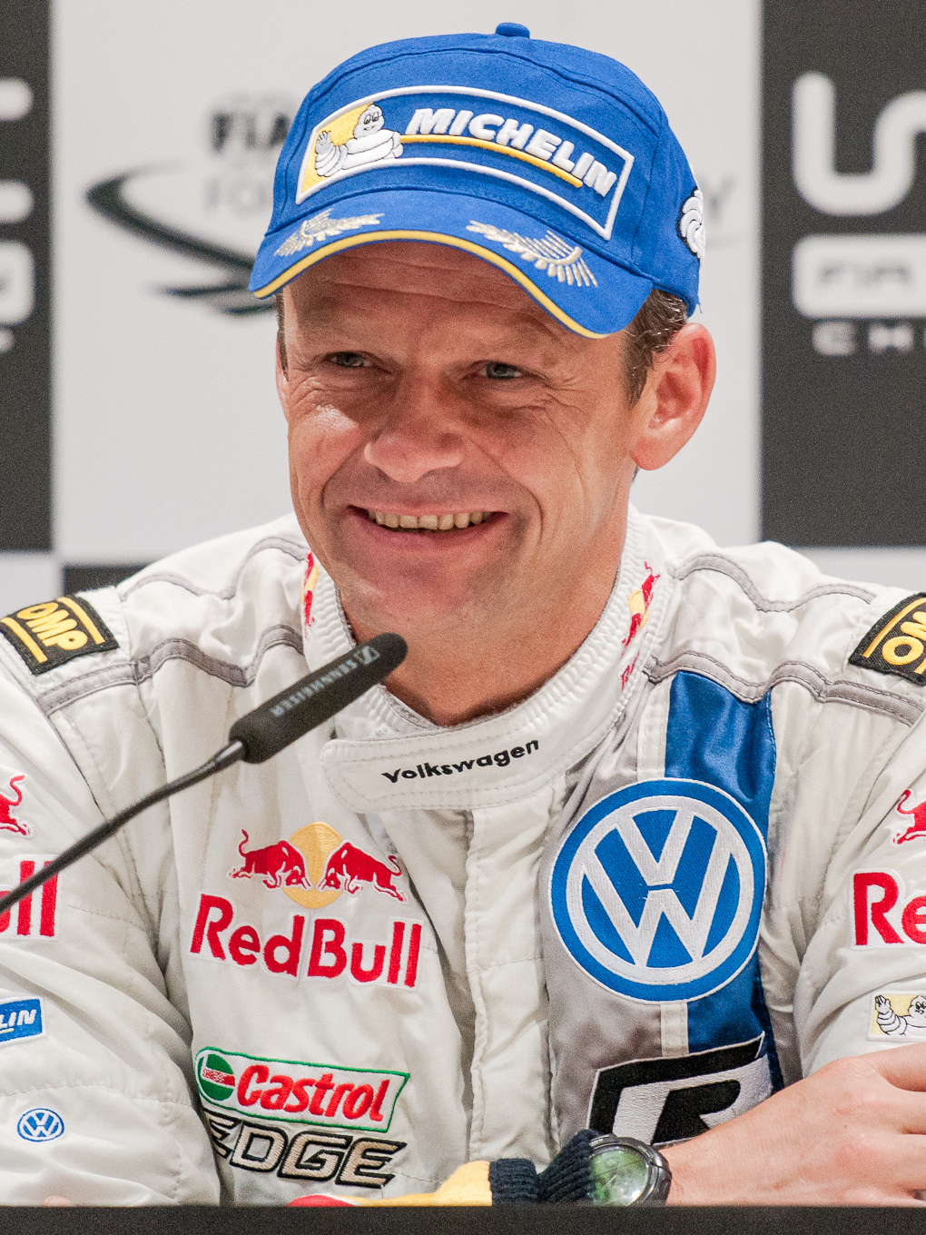 ADAC Rallye Deutschland 2014,FIA,FIA World Rally Championship,Motorsport,Ola Floene,Pressekonferenz,Rally,Rallye,Volkswagen Motorsport,WRC